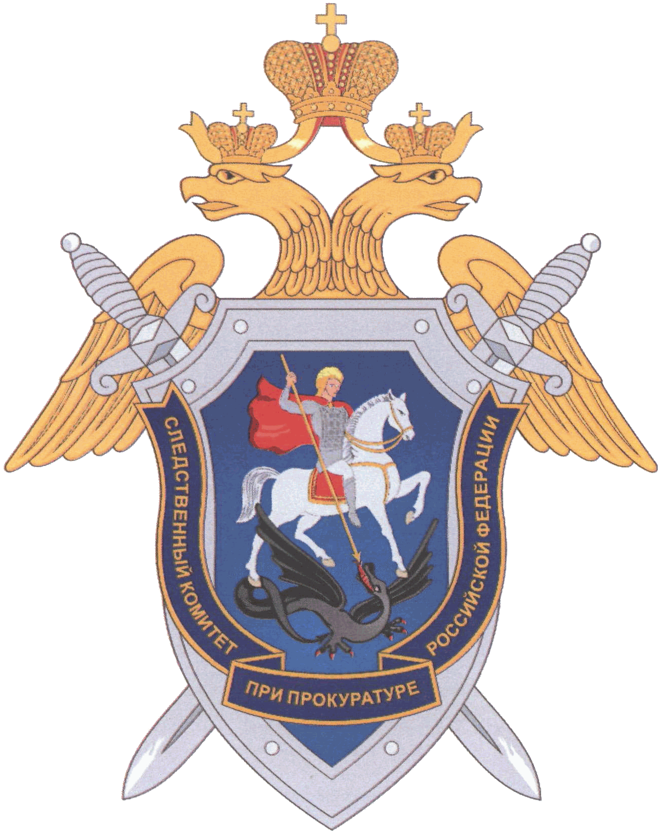 Emblem of the Investigative Committee under the Prosecution Service of the Russian Federation